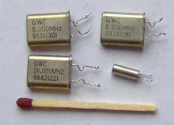 Quartz crystal resonators used in crystal oscillators. Some have their resonant frequency stamped on the case